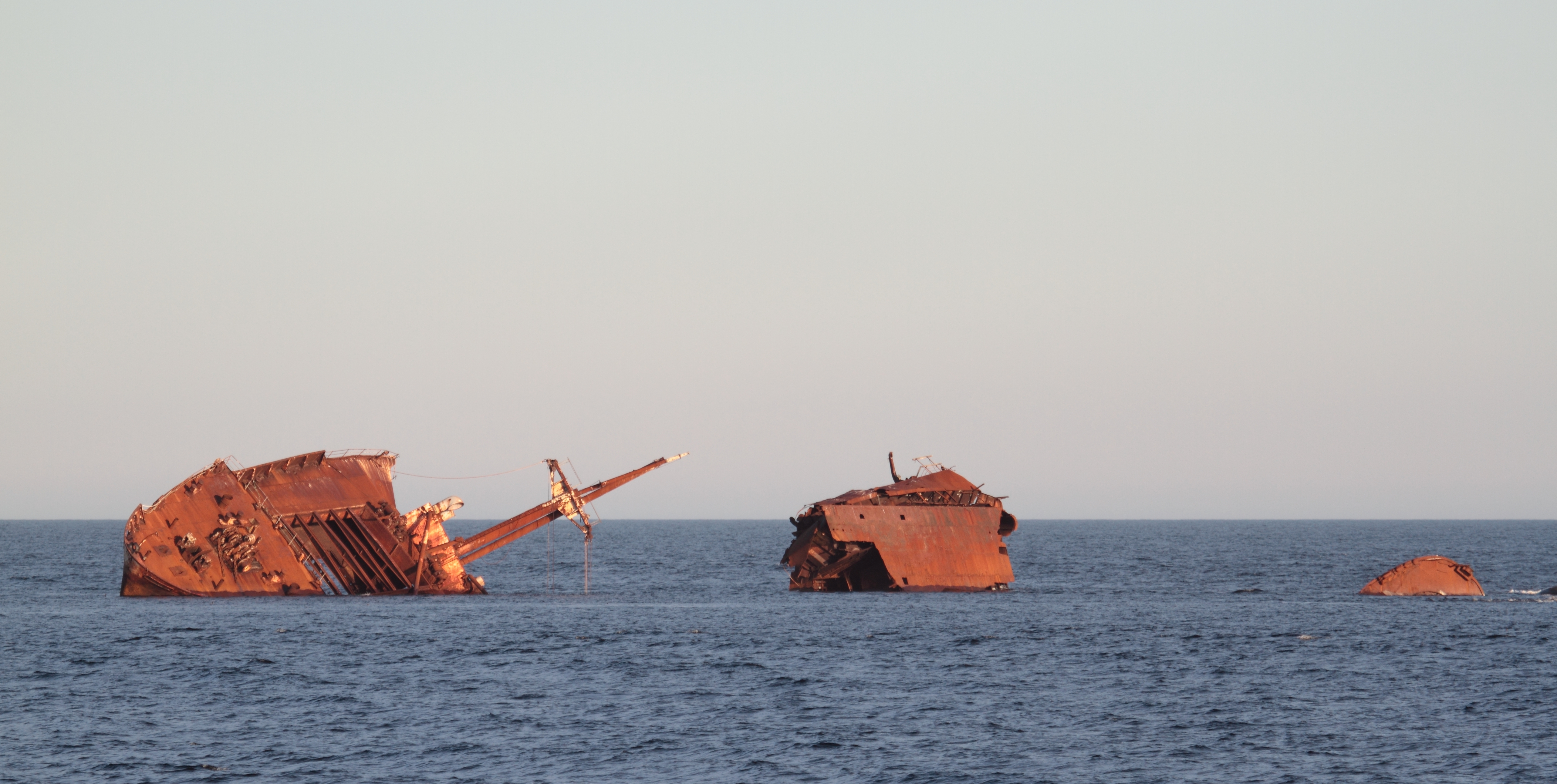 Lady Era shipwreck, Port-Cartier, Quebec, Canada